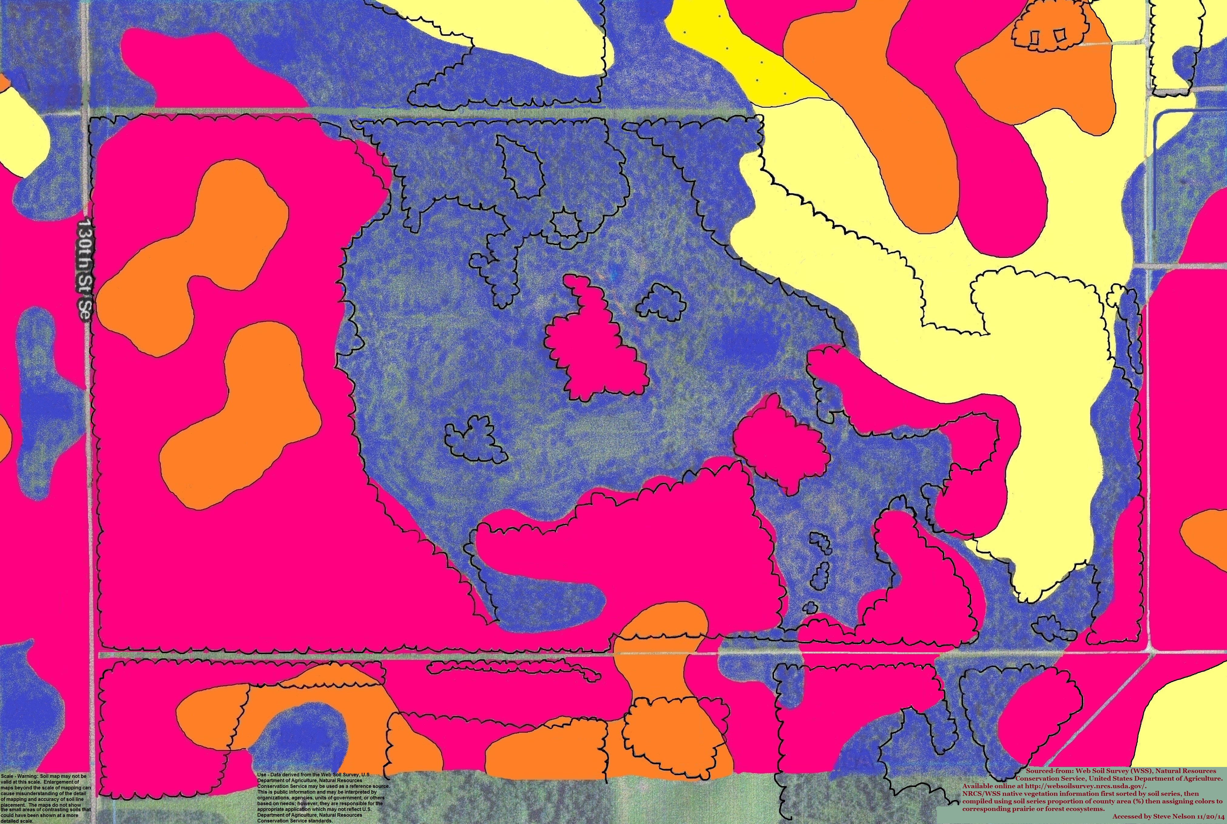 Native vegetation map shows area around Oriniak State Wildlife Management Area in Pennington County Minnesota. All upland ecosystems are prairie, either prairie or savanna. Aspen is dominant in both oak savanna and mixed hardwoods - prairie.